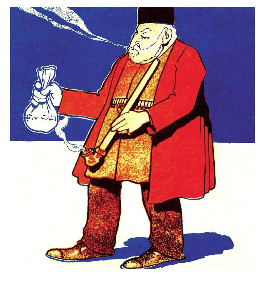 This caricature is the first work of Azim Azimzade in “Molla Nasreddin” satirical magazine. It was posted on 19 May 1906 in the 7th issue on page 4. The caricature calls “The subscriber of Irshad”.